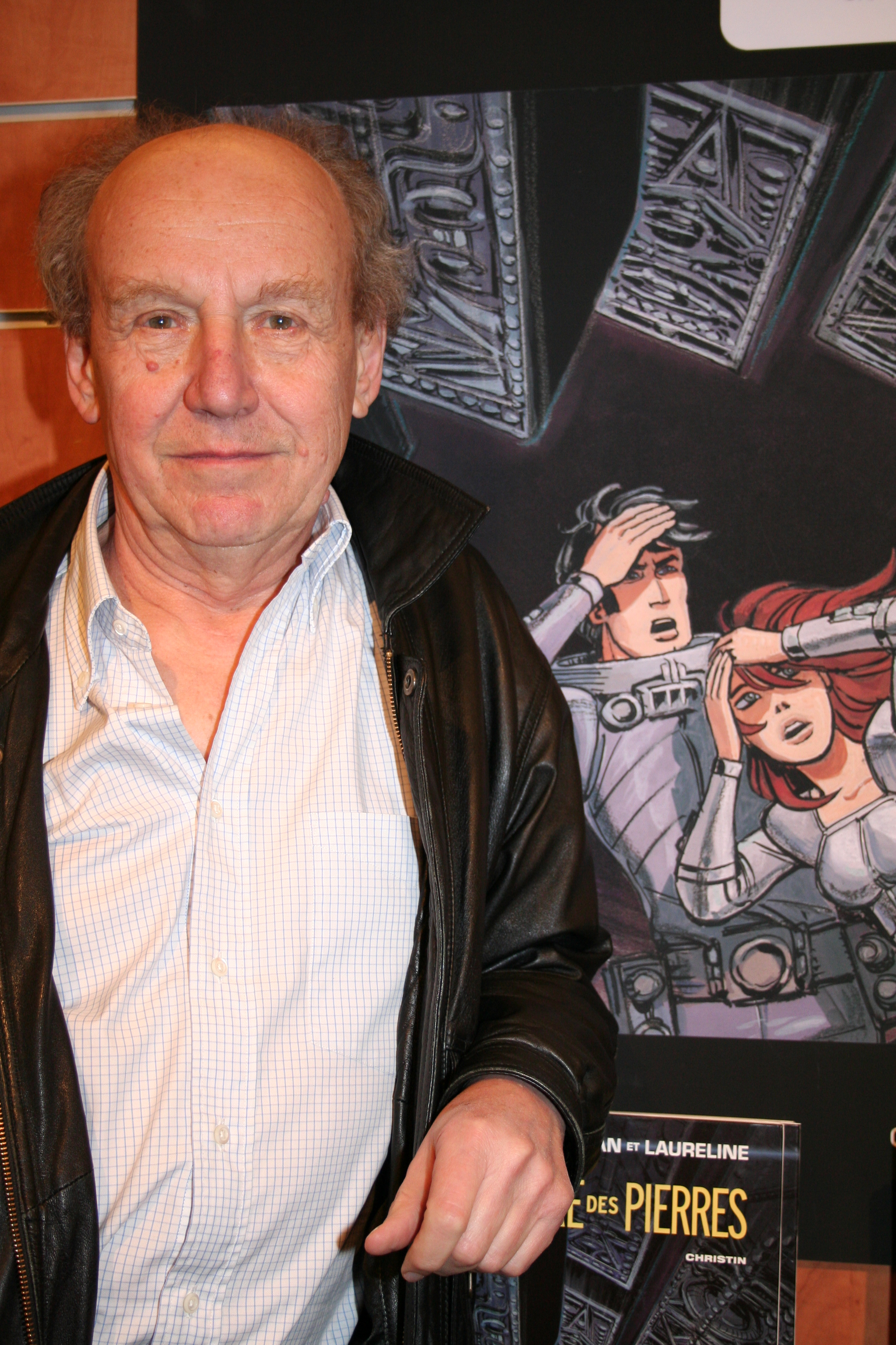 Rendezvous with Jean-Claude Mézières at Fnac des Ternes (Paris, France).